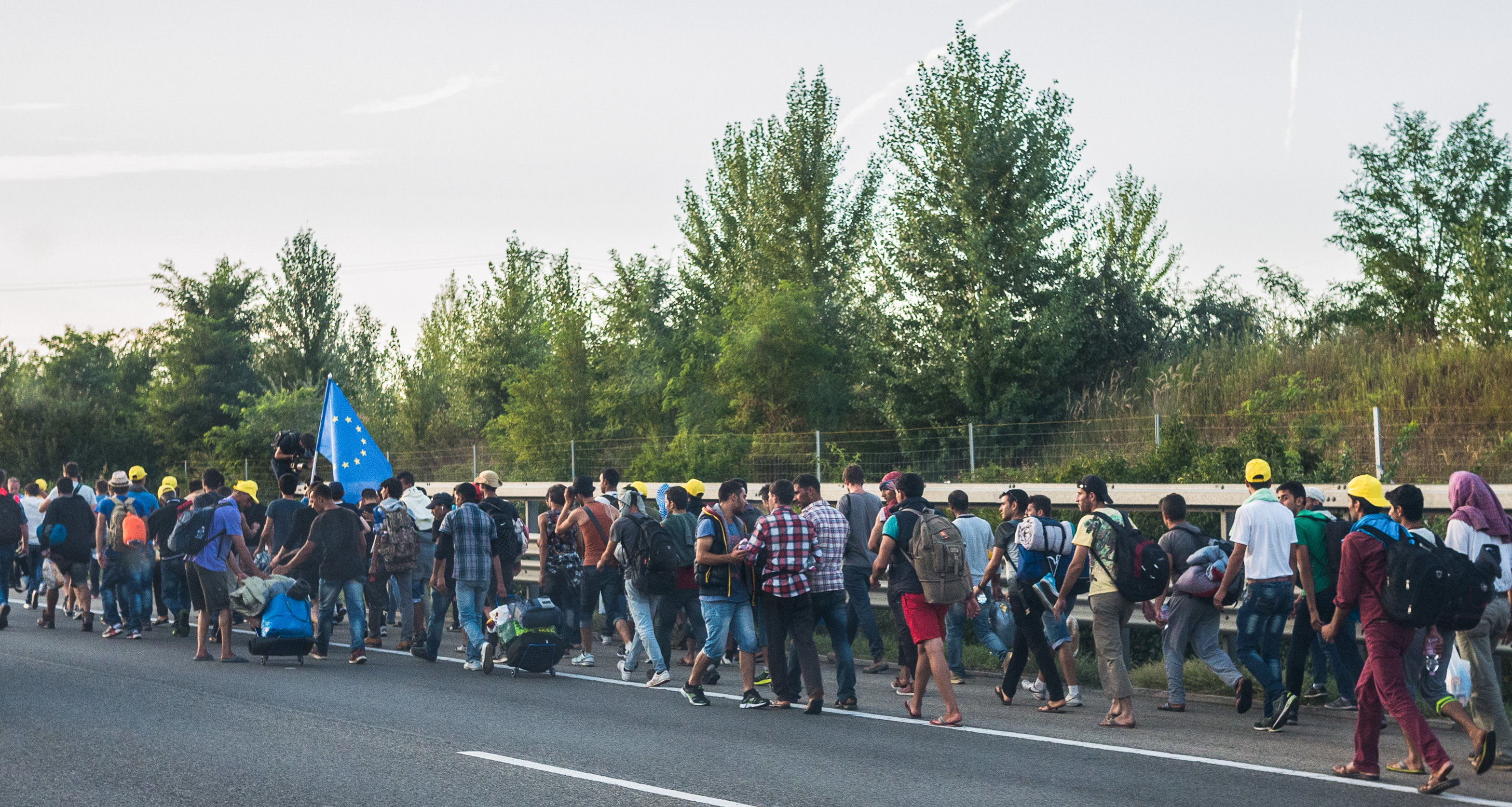 Refugees on the Hungarian M1 highway on their march towards the Austrian border